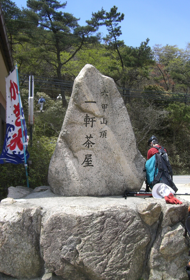 Stone monument of Ikken-Chaya on Mount Rokko; 六甲山最高峰の直下にある一軒茶屋の石碑。